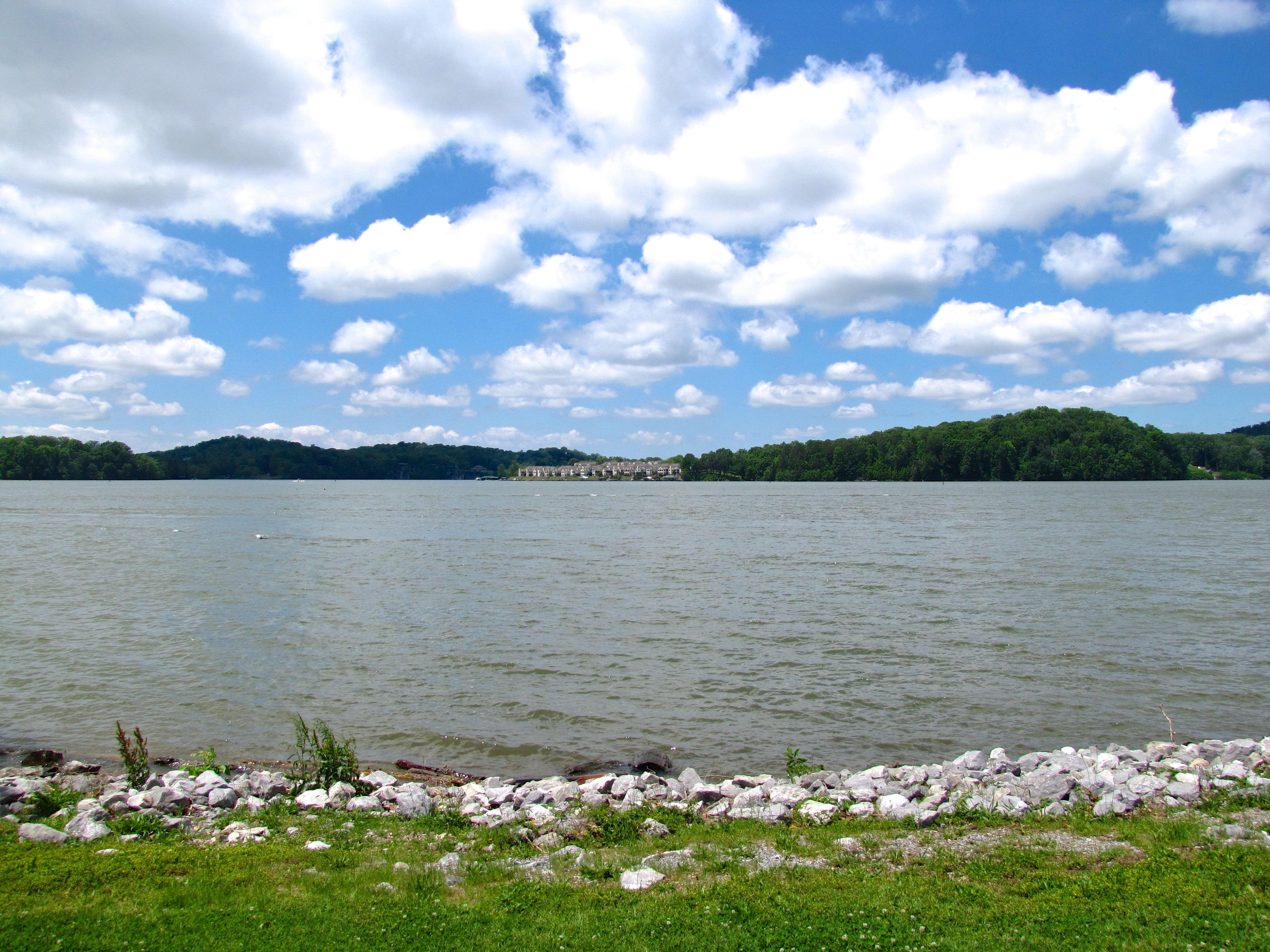 View across Fort Loudoun Lake from Louisville Point Park in Louisville, Tennessee, United States. The Mariners Pointe community is visible across the lake.